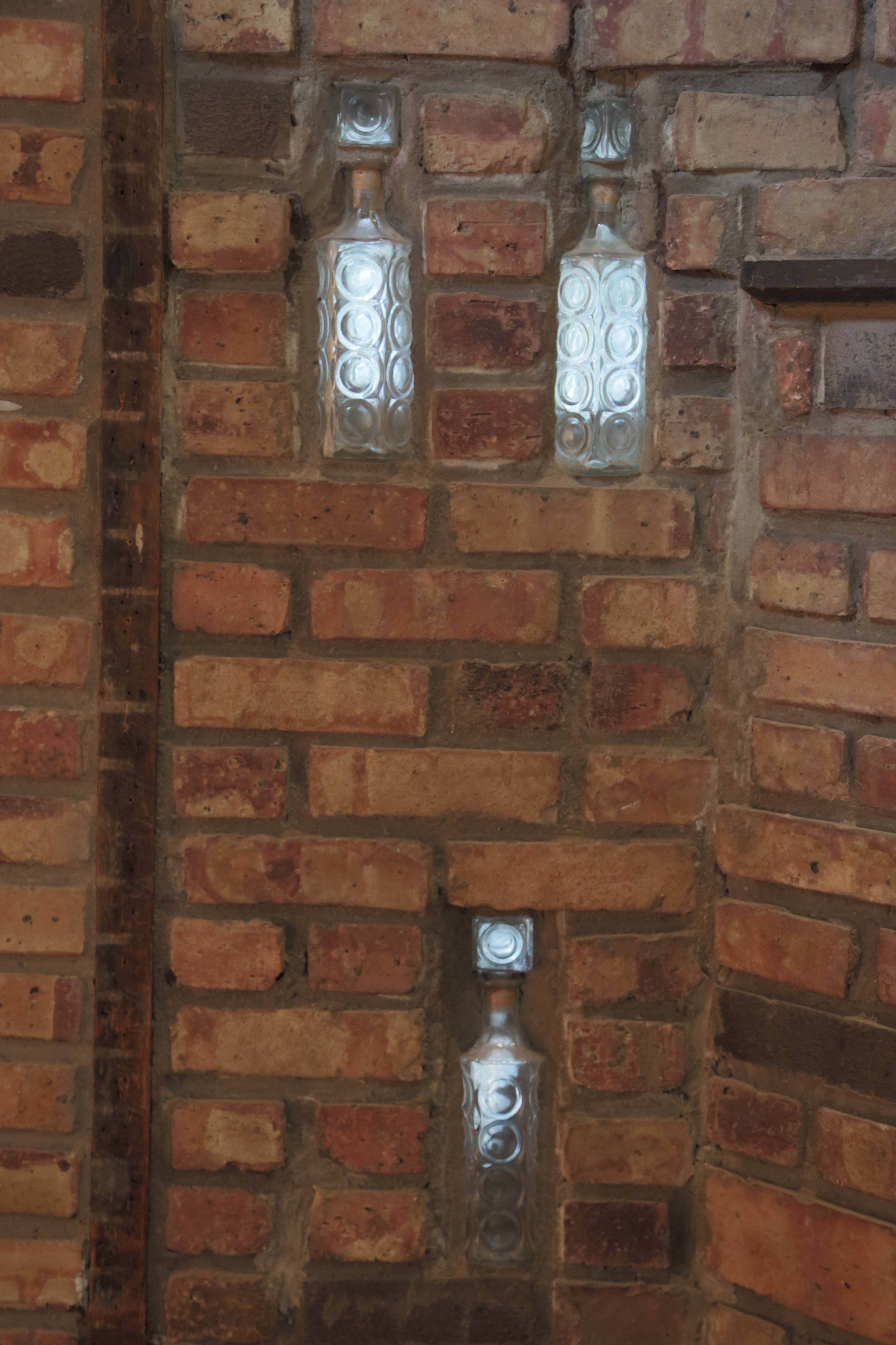 Old Town Chicago Coach House July 27, 2014